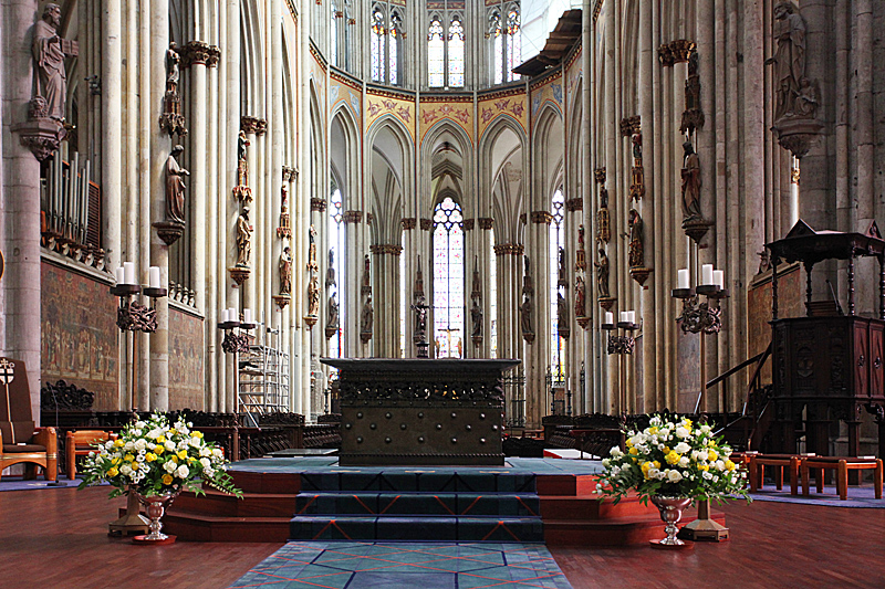 Cologne Cathedral, High Altar